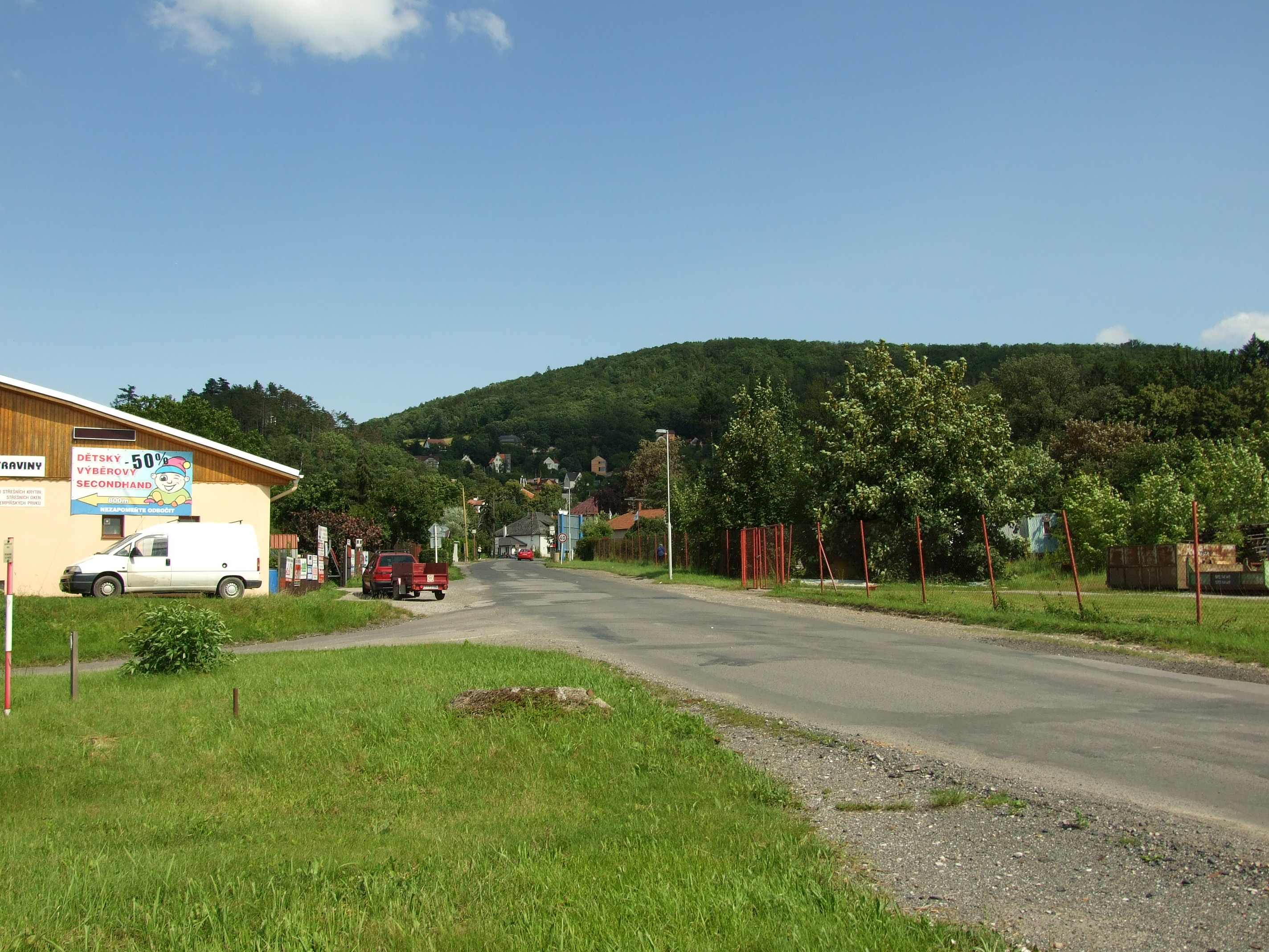 Všenory, Prague-West District, Central Bohemian Region, the Czech Republic. Květoslava Mašity street.